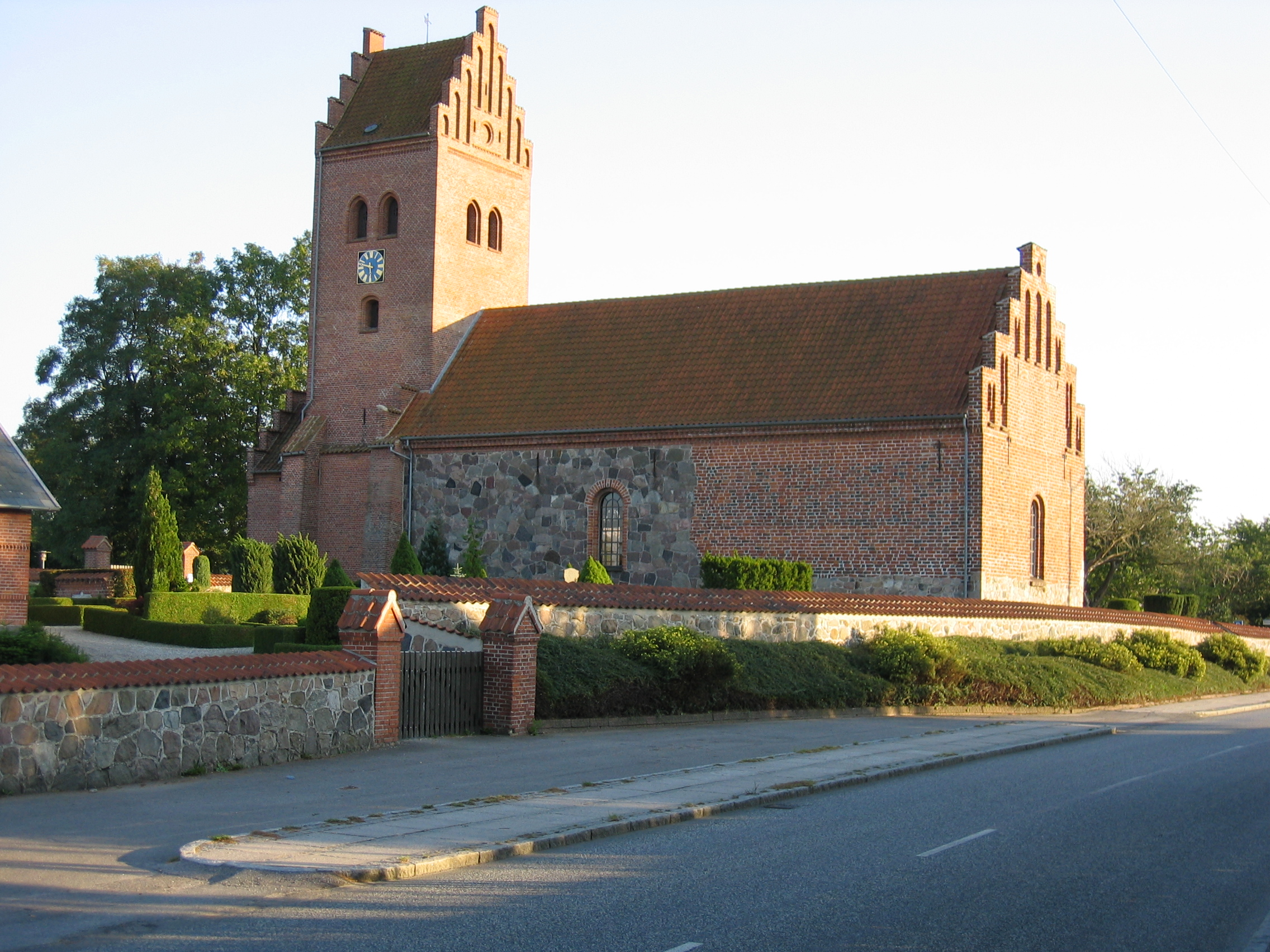 Lillerød Church, Lillerød parish, Lynge-Frederiksborg Herred, Frederiksborg County, Denmark.